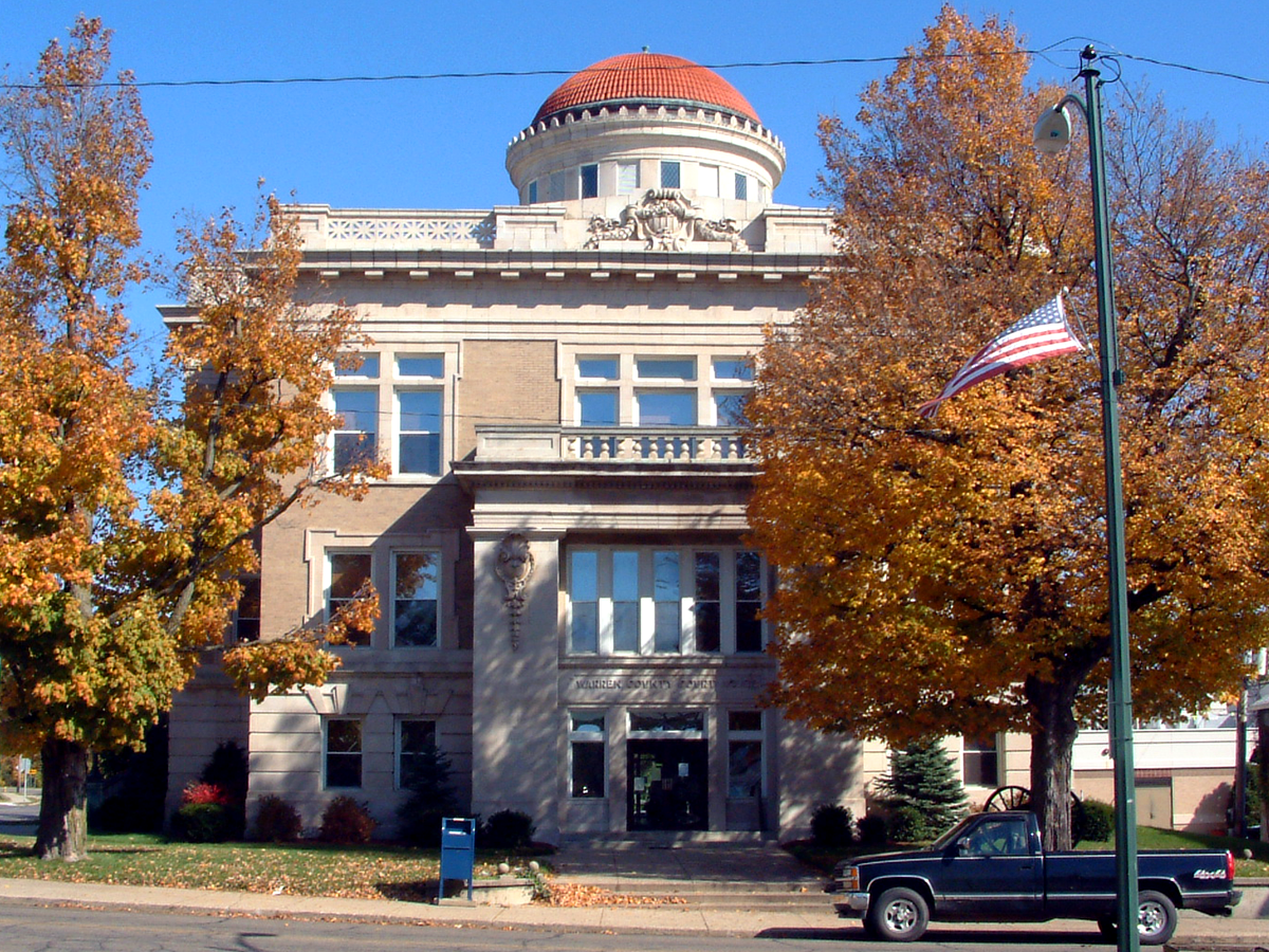 The Warren County courthouse in Williamsport, Indiana. Photo is of the west side of the building, taken from Monroe Street.